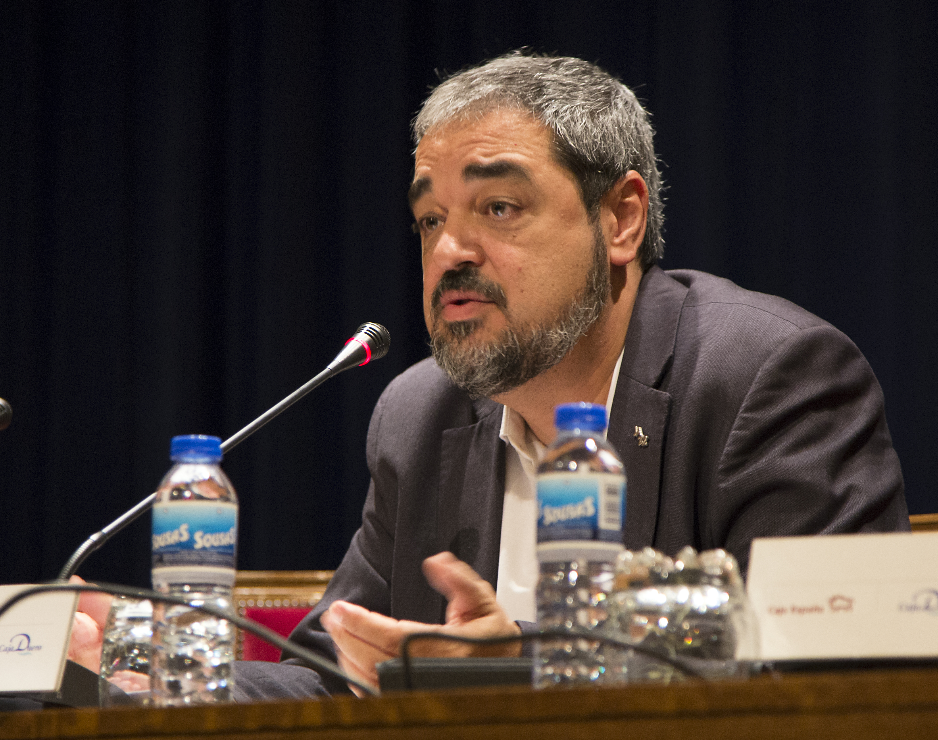 Carlos Aganzo, Spanish journalist.